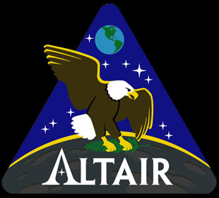 Insignia of the Altair Project a part of Project Constellation. Note its similarity to the Apollo 11 insigna.